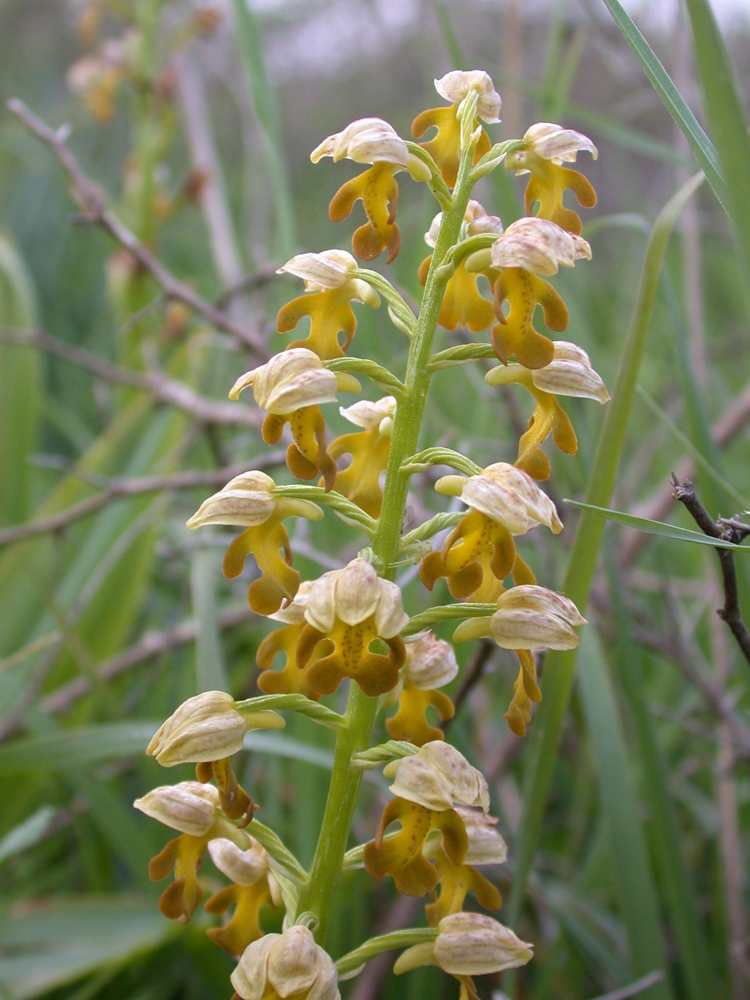 Orchis punctulata Stev. ex Lindl. (סחלב נקוד), Horshat Tal Orchid Reservation, Hulla Valley, Israel, March 26, 2006.